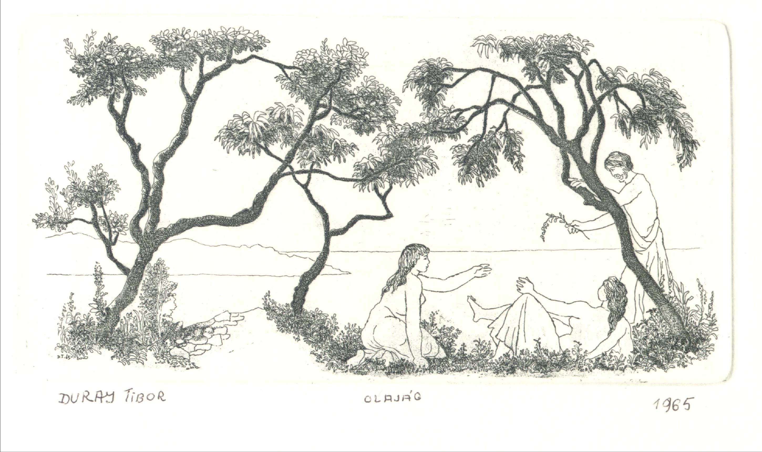 Olive branch